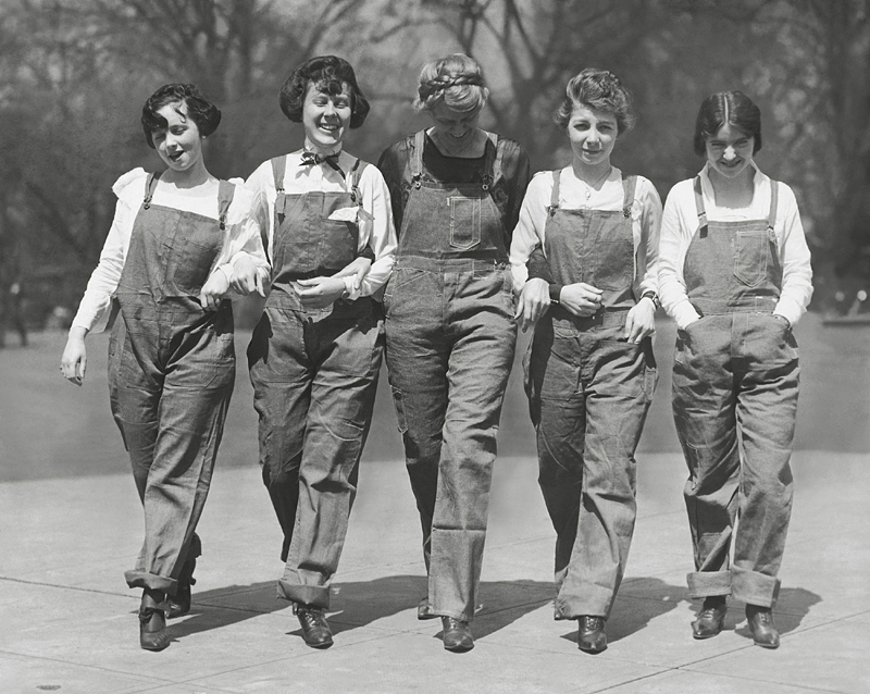 Five U.S. Congressional Secretaries in overalls